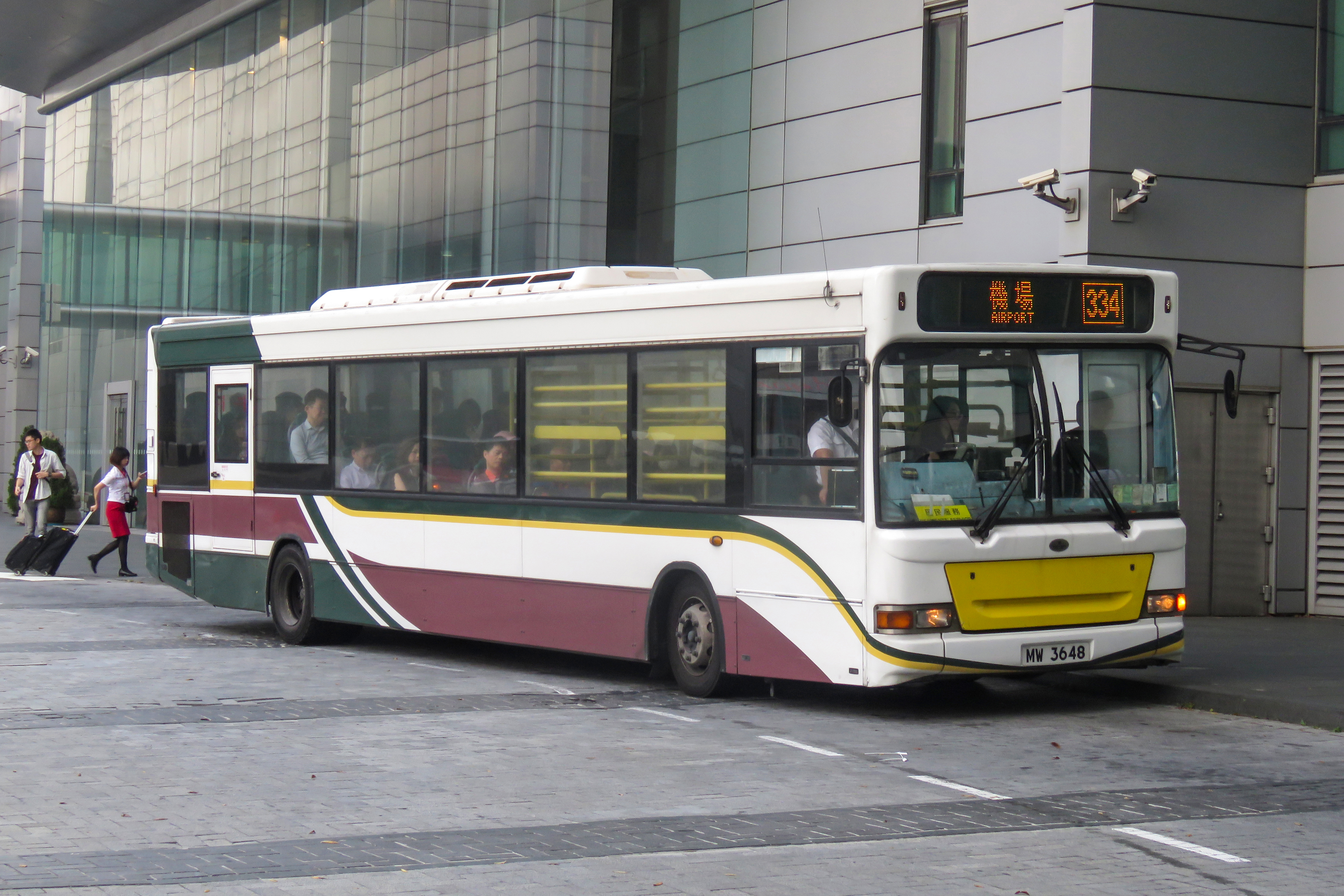 To airport via CX City.